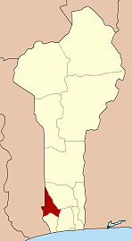 Map of Benin highlighting the department Kouffo